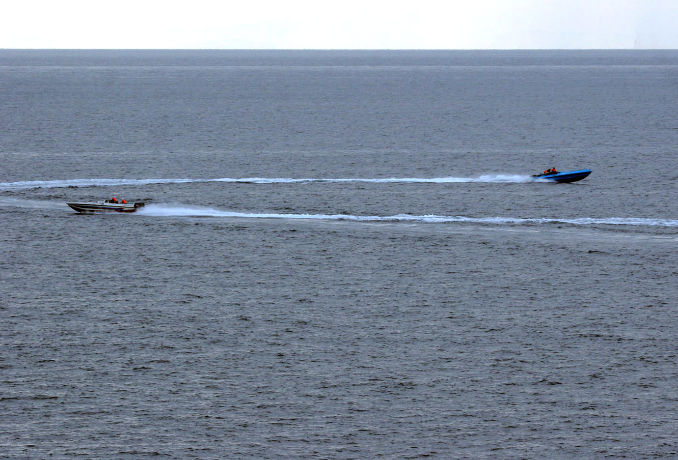 Small craft suspected to be from the Islamic Republic of Iran Revolutionary Guard Navy (IRGCN), maneuver aggressively in close proximity of the U.S. Navy Aegis-class cruiser USS Port Royal (CG-73), Aegis-class destroyer USS Hopper (DDG-70) and frigate USS Ingraham (FFG-61). All three ships were steaming in formation and had just completed a routine Strait of Hormuz transit. Coalition vessels, including U.S. Navy ships, routinely operate in the vicinity of both Islamic Republic of Iran Navy and IRGCN vessels and aircraft, without incident.